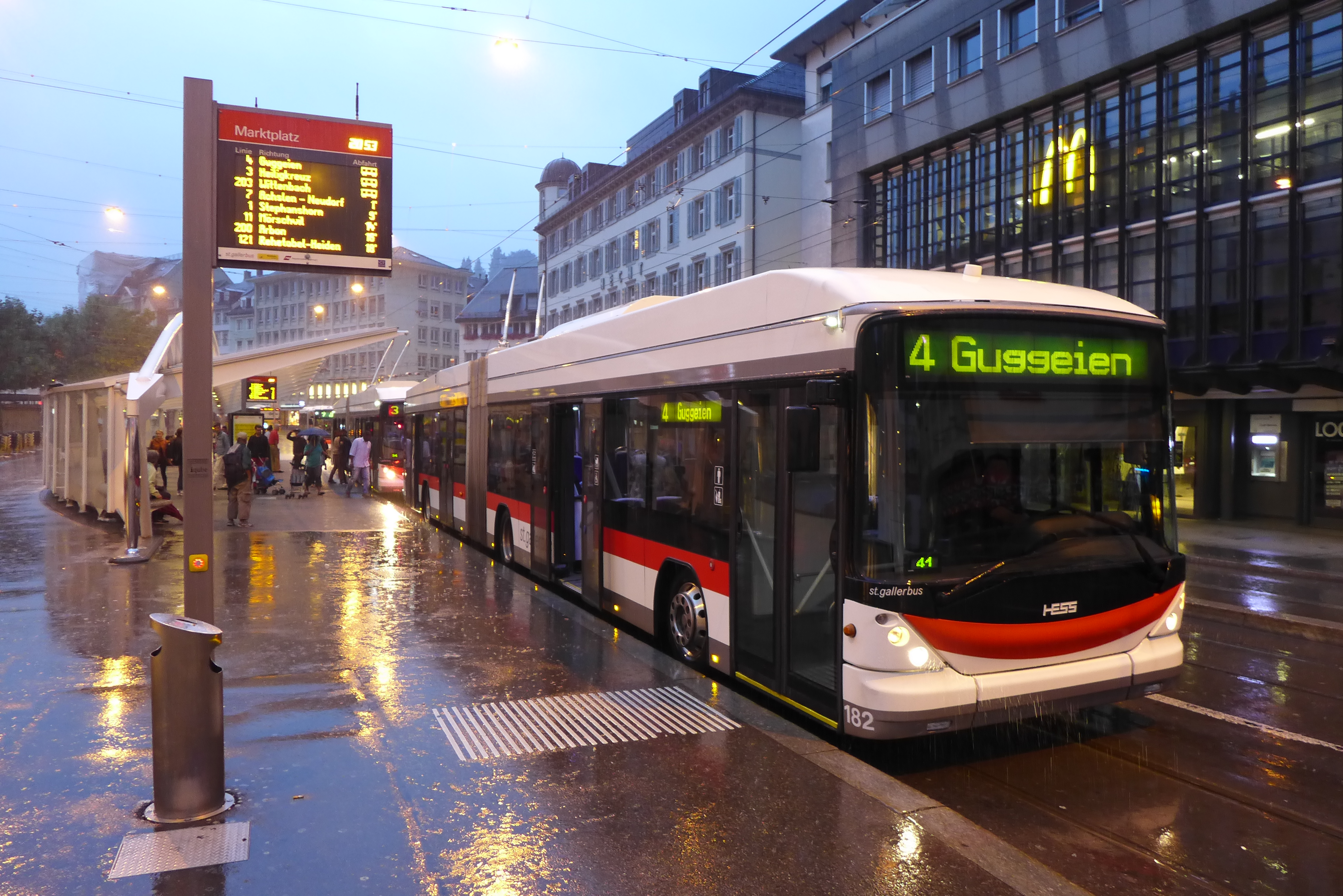 A Hess Swisstrolley 3 operating as St. Gallen trolleybus no. 182, and a sister unit behind it, at the trolleybus stop in Marktplatz, St. Gallen, Switzerland.